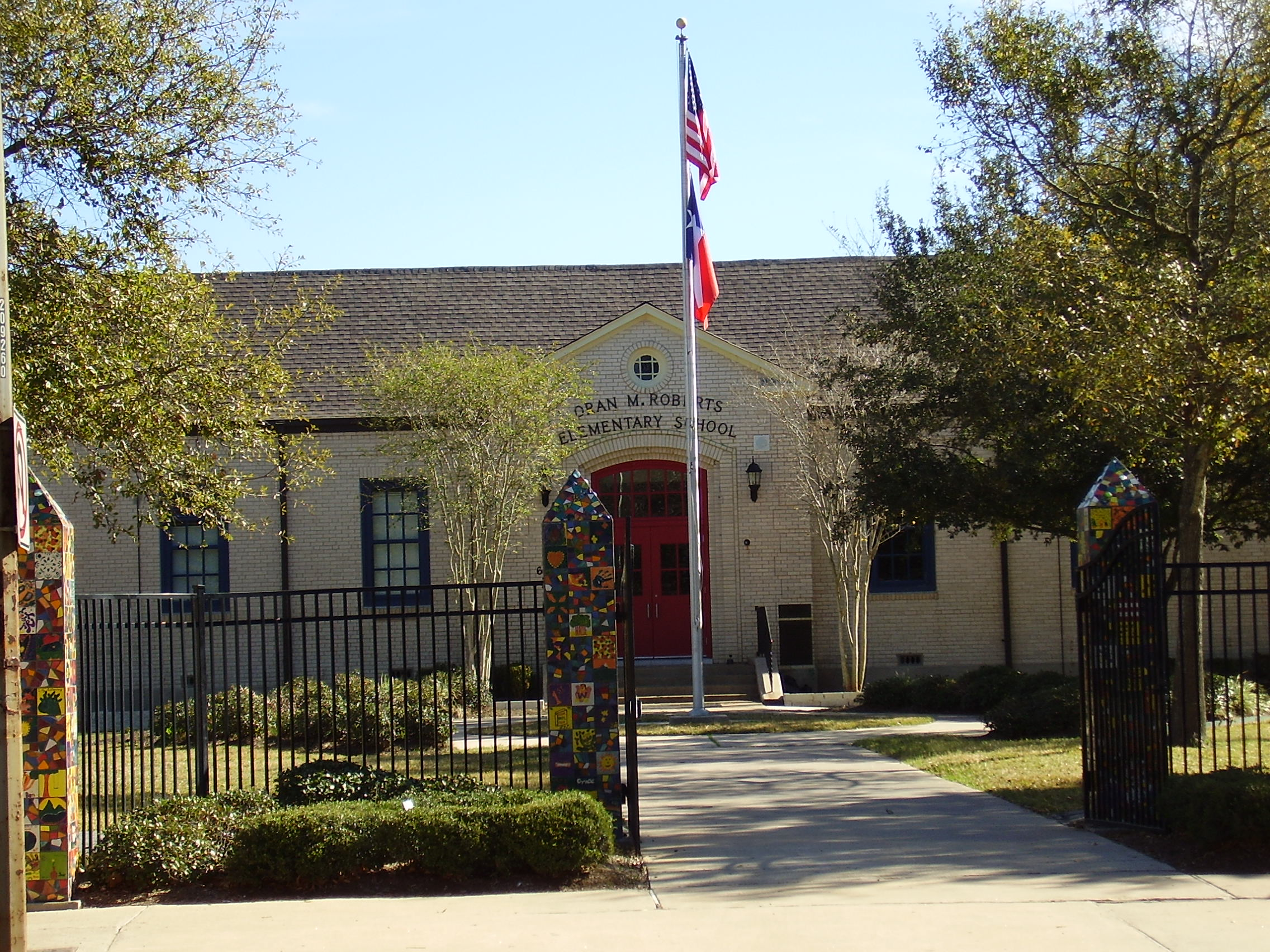 Oran M. Roberts Elementary School